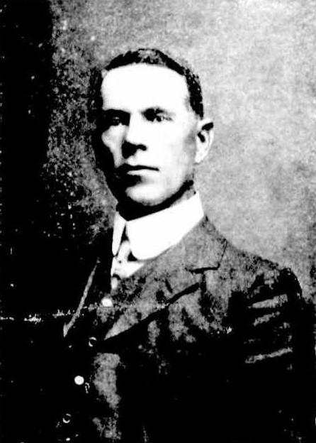 BOULDER TOWN HALL. (1908, July 14). Kalgoorlie Western Argus (WA : 1896 - 1916), p. 19. Retrieved June 19, 2018, from